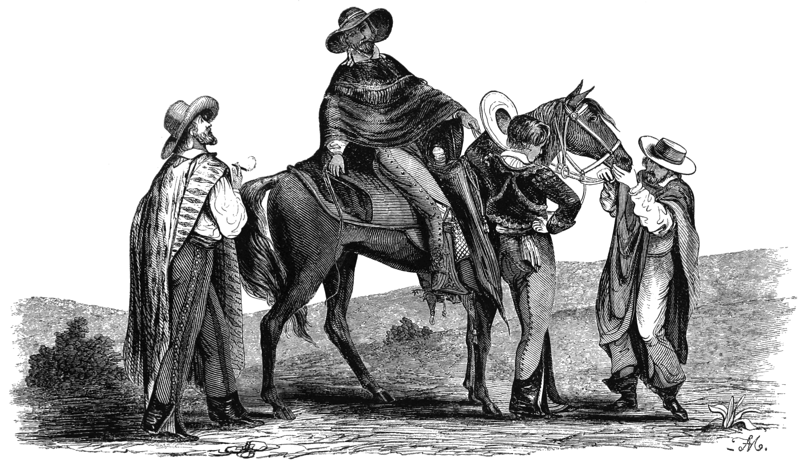 Rancheros from book illustration.